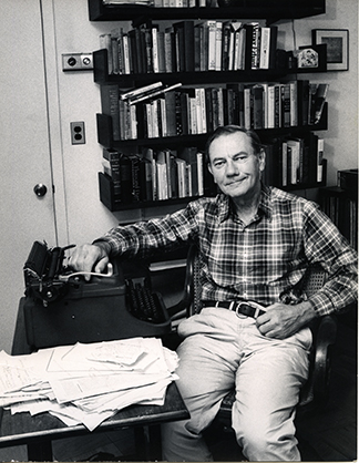 A picture of Daniel Lang